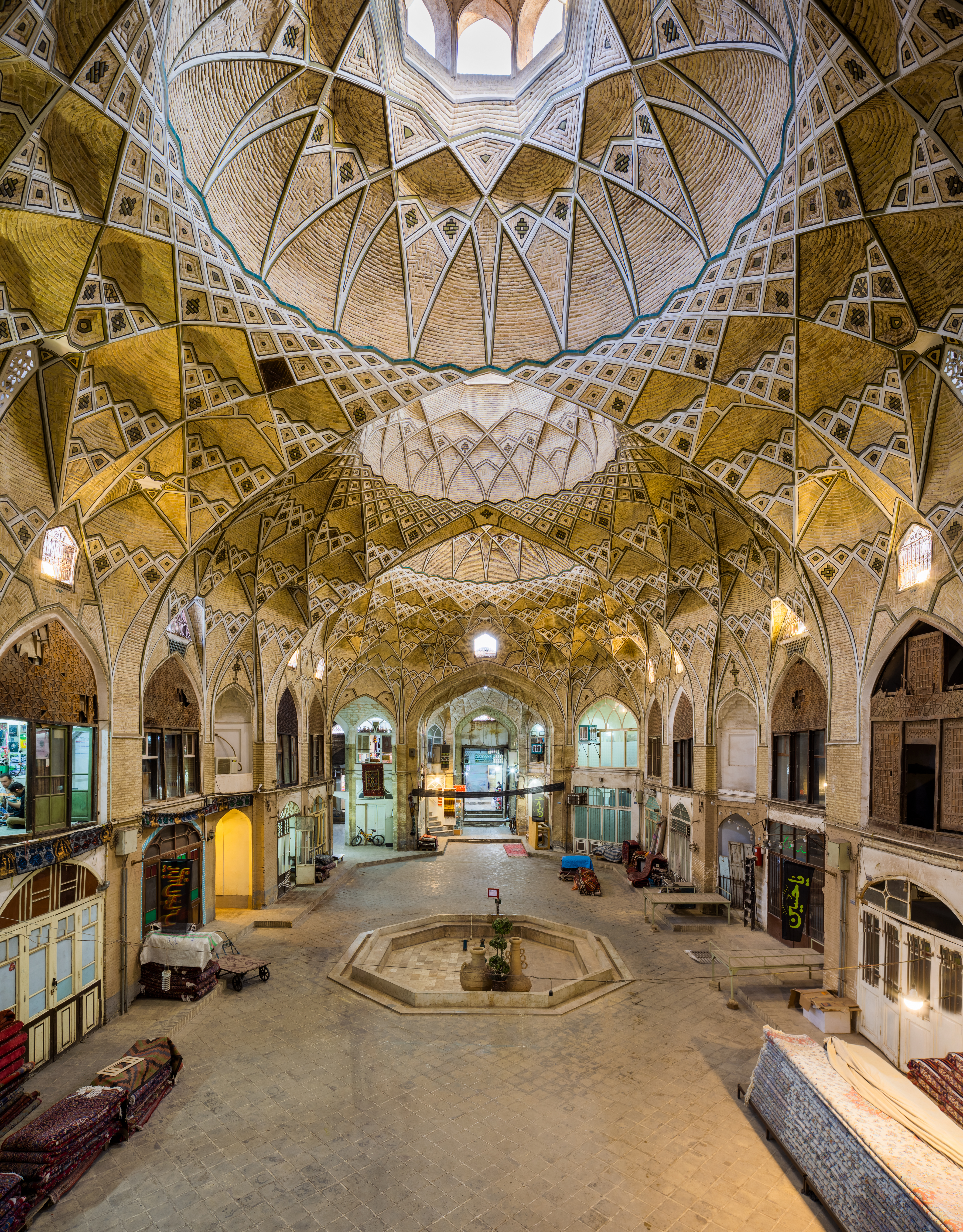 The grand teemcheh located in qom historical bazaar. this architecture has biggest rough brick arch in iran and built in qajar dynasty